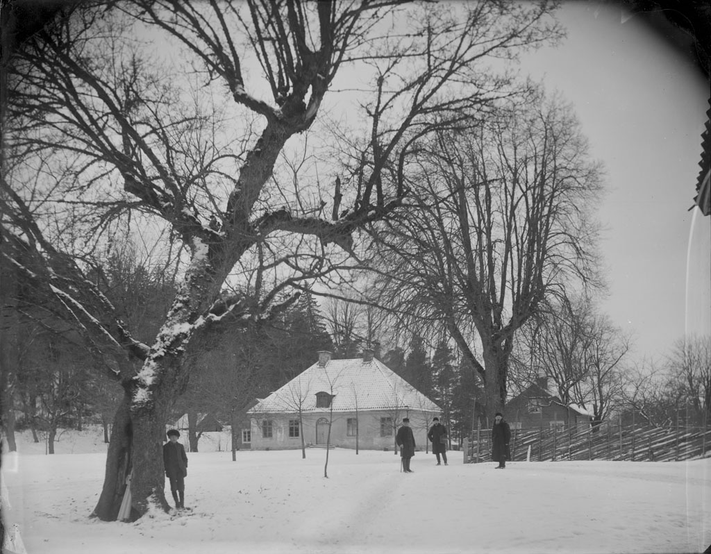 Boy and three men at the country house Kungshamn of Gustaf Cederström. (Himself in middle of the group of three men.) Pojke och tre män vid Gustaf Cederströms lantsegendom Kungshamn. (Han själv i mitten av gruppen med tre män.) Parish (socken): Alsike Province (landskap): Uppland Municipality (kommun): Knivsta County (län): Uppsala Photograph by: Carl Curman Date: c.1900 Format: Glass plate negative Persistent URL: Read more about the photo database (in english)